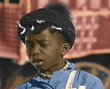 Colorized screenshot of Allen Hoskins from short subject Bear Shooters. Original copyright 1930 MGM, not renewed. Used to illustrate film/actor being described.